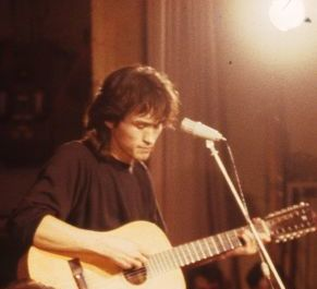 Yuri Kasparyan (seated) and Viktor Tsoi (standing) photographed in 1987 during a concert in Leningrad.